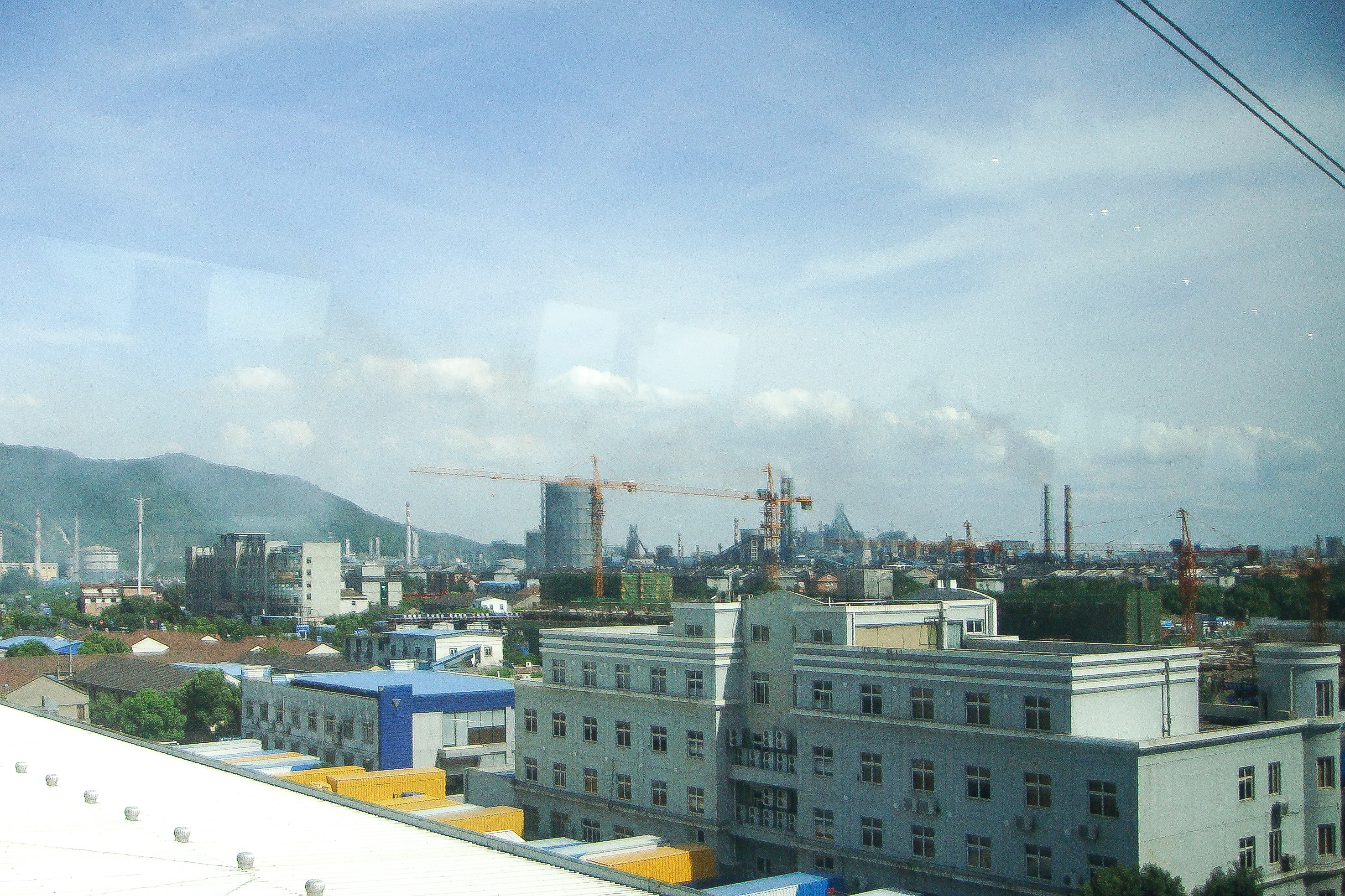 201308 Hzsteel factory, it was demolished in 201606.